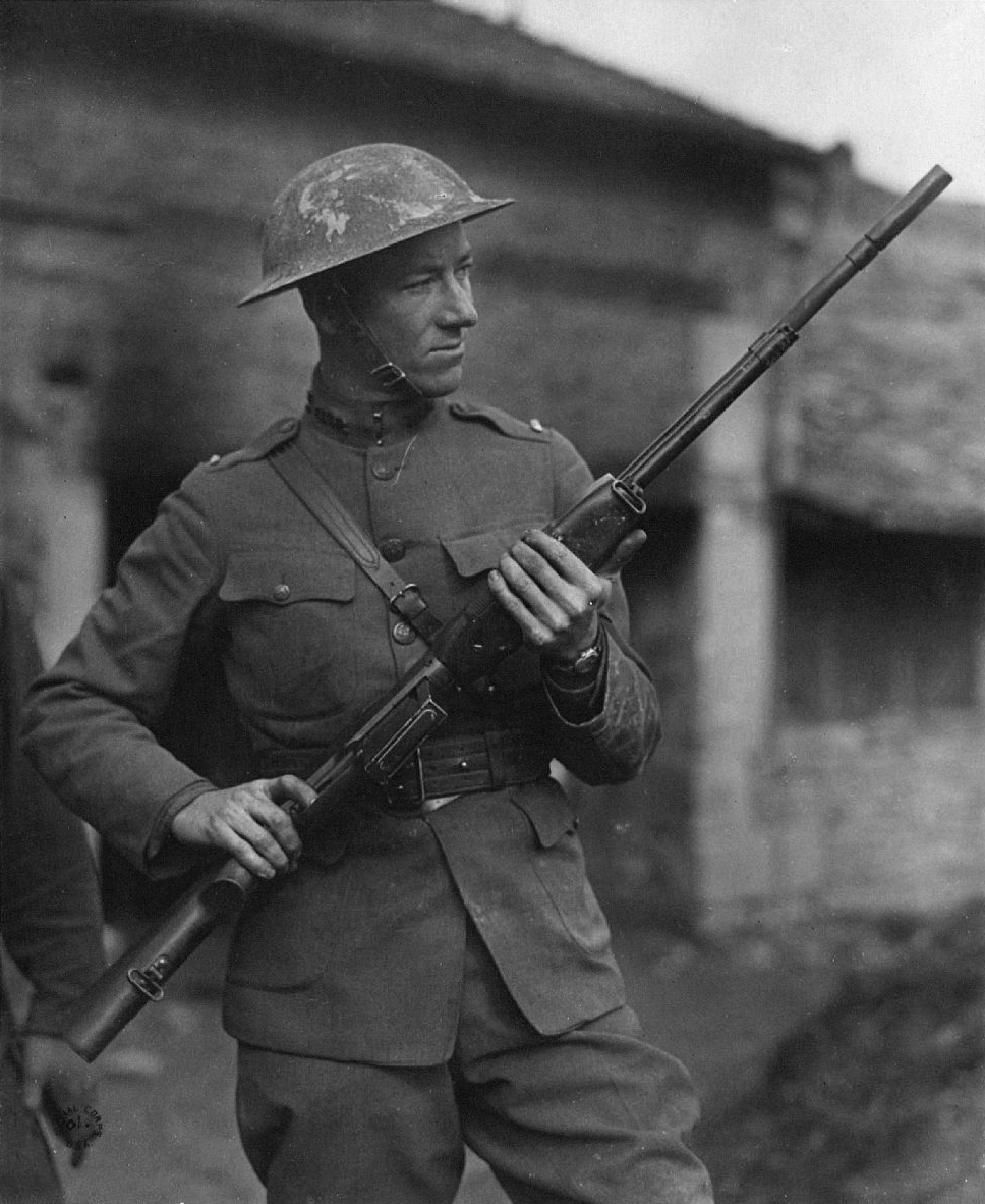 John M. Browning's son Lt. Val Browning with the M1918 Browning Automatic Rifle